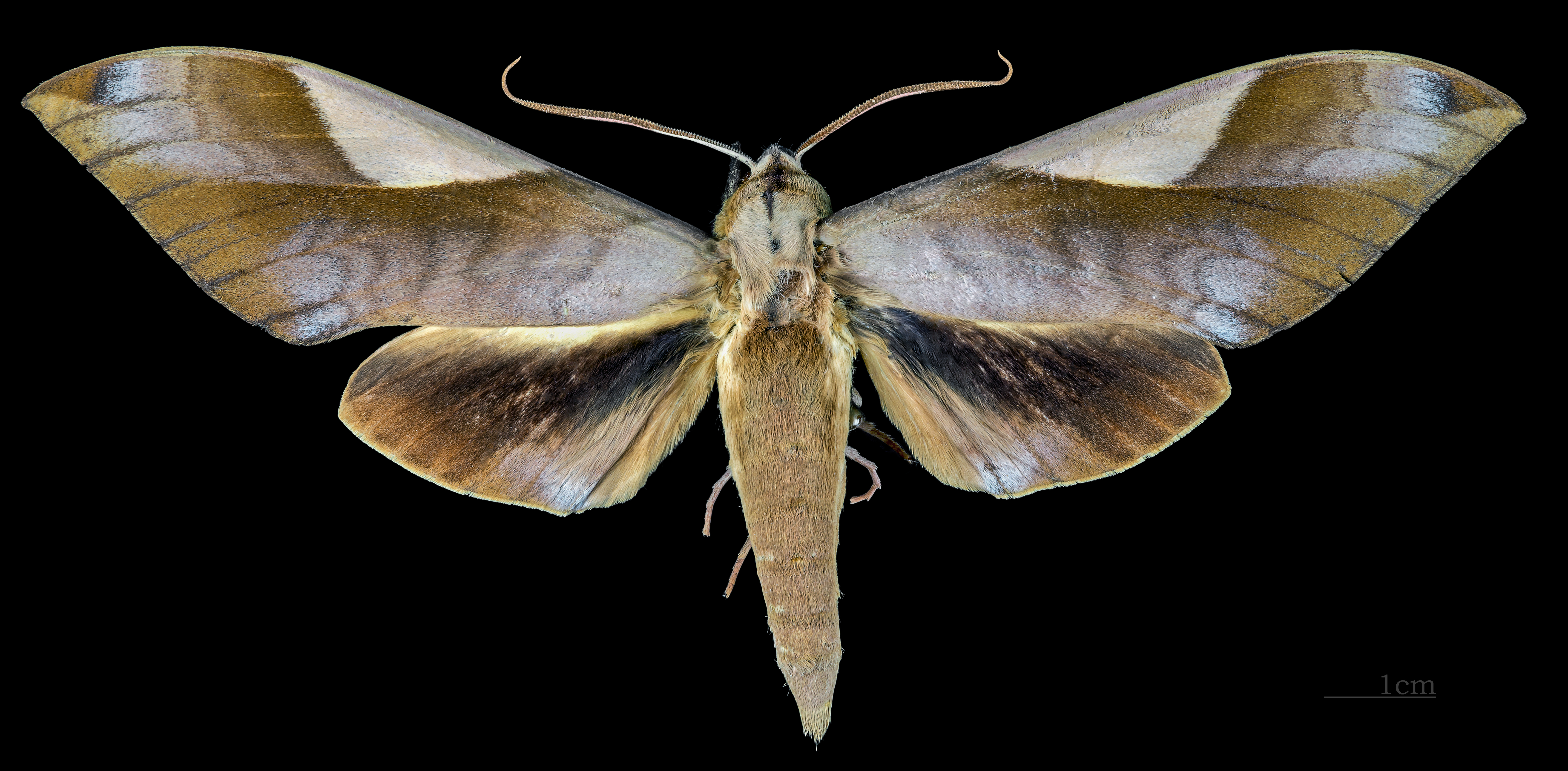 Clanis pratti - Dorsal side Collection of the Mathematician Laurent Schwartz